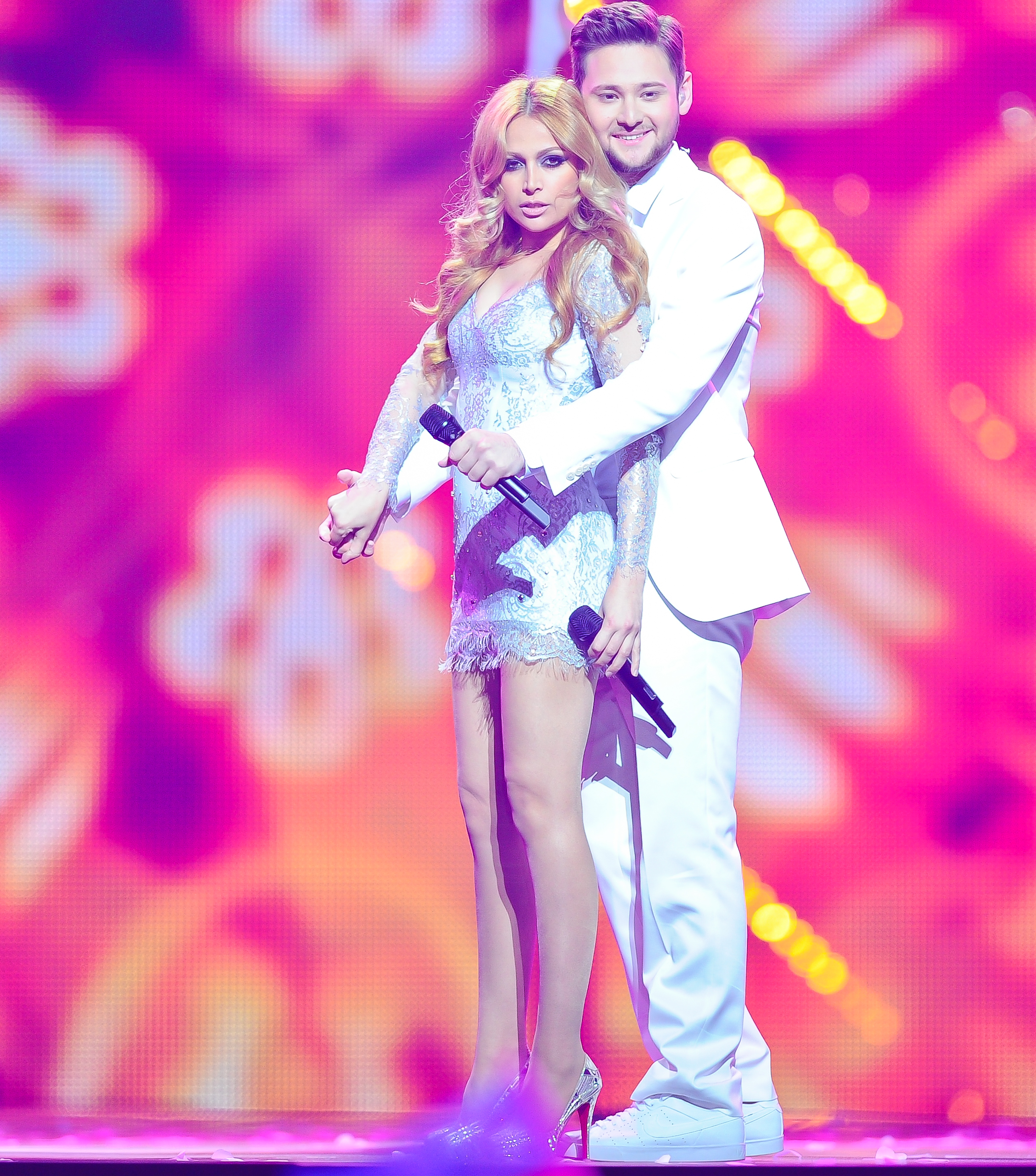 Eldar ang Nigar